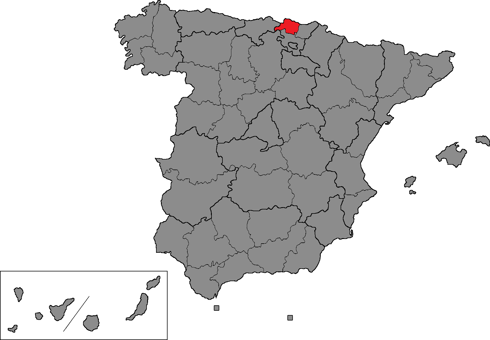 Spanish Congress of Deputies district of Biscay.